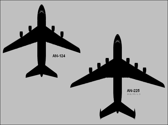 Antonov An-124 & An-225